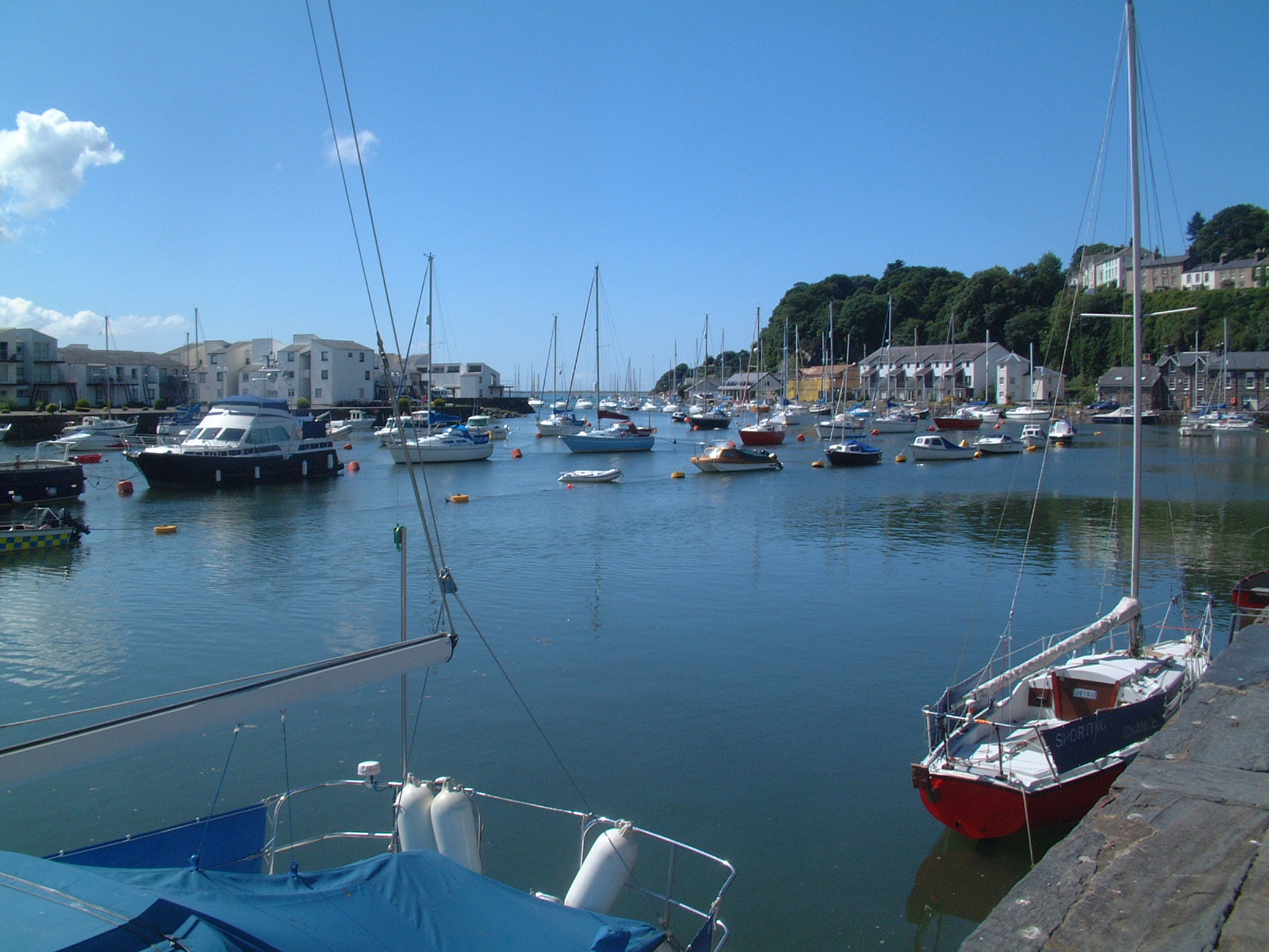 View of Porthmadog harbour and the Ffestiniog Railway's Harbour Station.